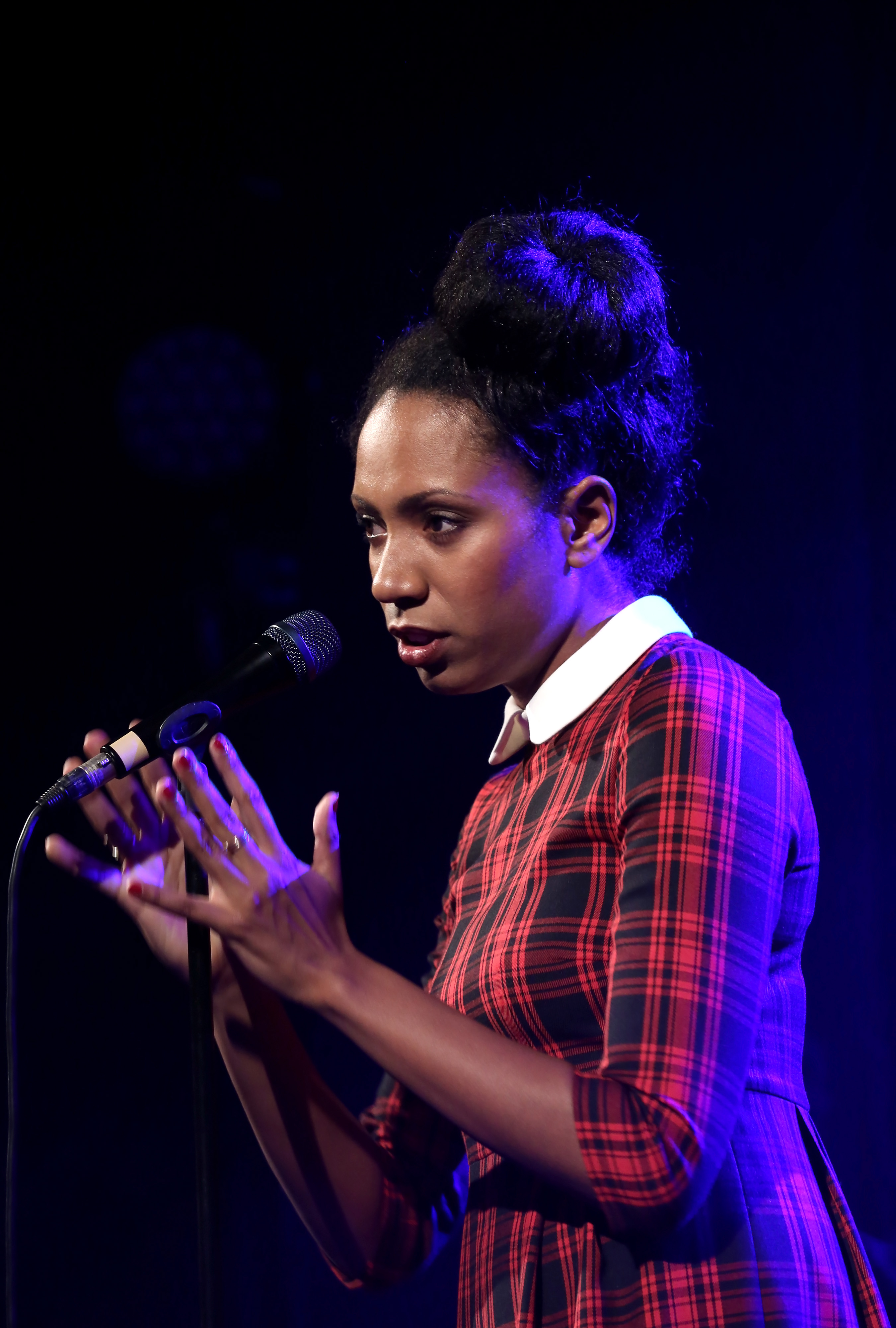 Y'akoto, concert at Porgy & Bess during Waves Vienna Music Festival & Conference 2014 in Vienna, Austria.